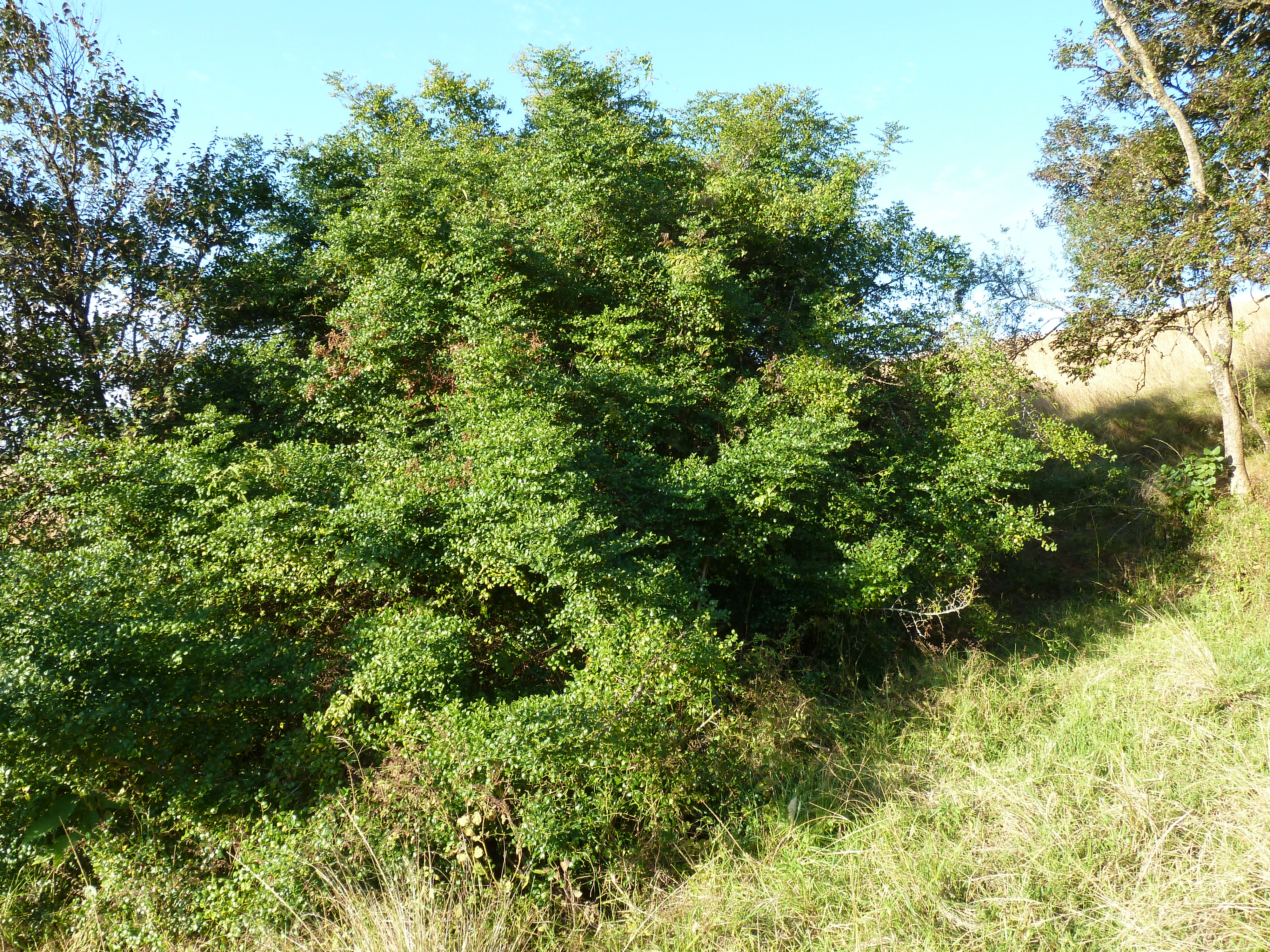 Lemon thorn growing at a water seepage, near Louwsburg, KwaZulu-Natal